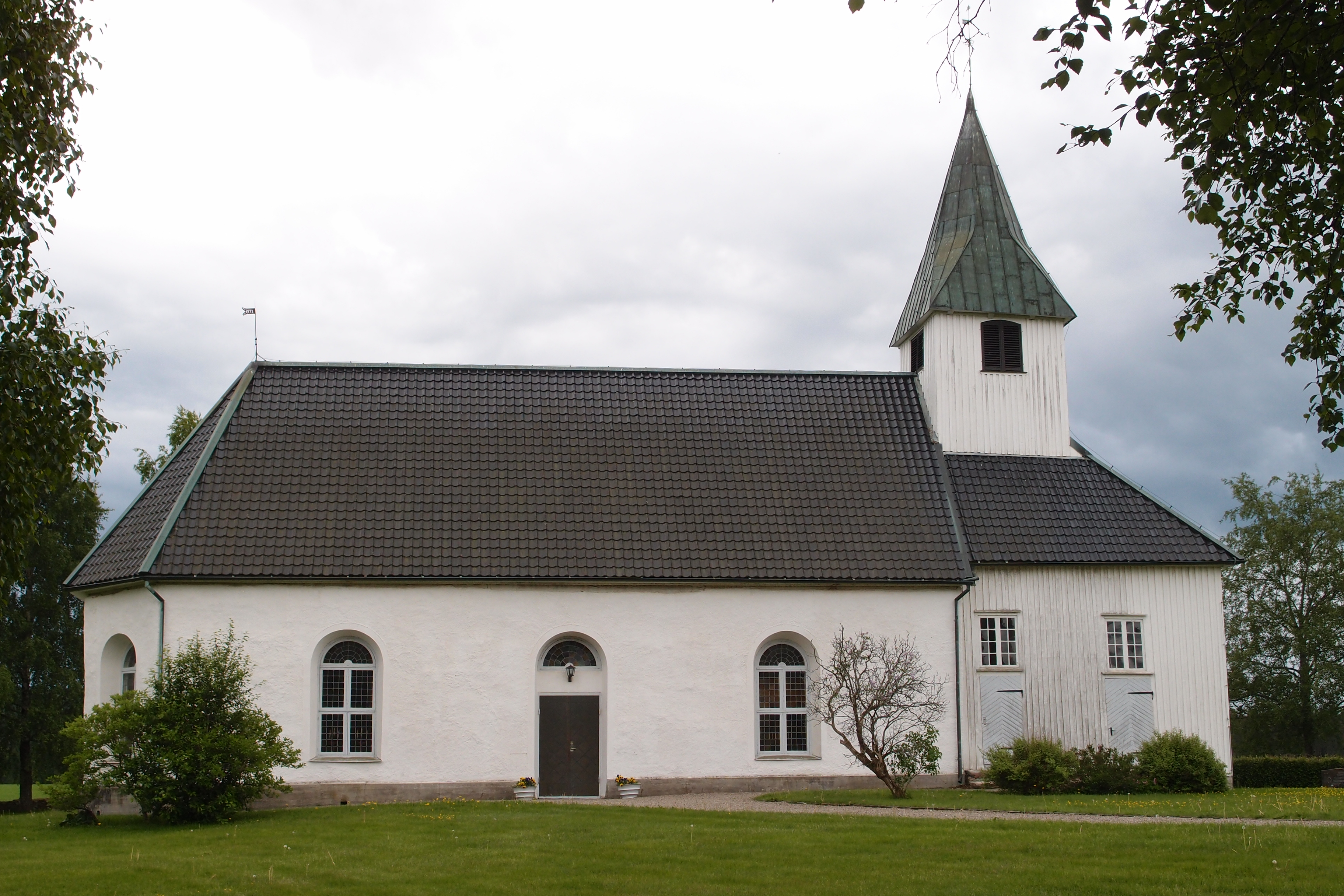 Varnum Church